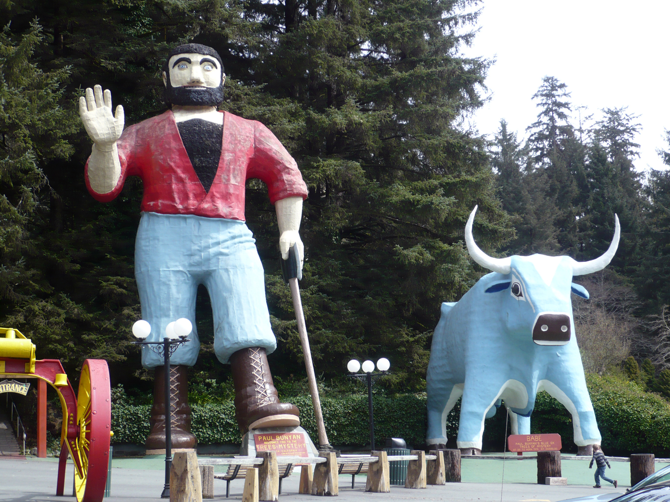 Paul Bunyan and Babe the blue ox, concrete folk art at Trees of Mystery attraction in Klamath, south of Crescent City, California. The sign under Bunyan's foot reads in part: "Paul Bunyan welcomes you to the Trees of Mystery Klamath, California. Weight 30,000 lbs, Concrete base 80,000 lbs, Height 49 feet 2 in. Waist 52 feet around, Axe 27 feet long, Chest 66 feet around, Boots 10 feet high" and the one under Babe reads: "Babe - 35 feet tall to horn tips and weighs 30,000 pounds". The original Bunyan was built in 1946; rebuilt in 1961. The current Babe built in 1950. Their original configuration was one on each side of the building. Babe was subsequently moved to his current location next to Bunyan.